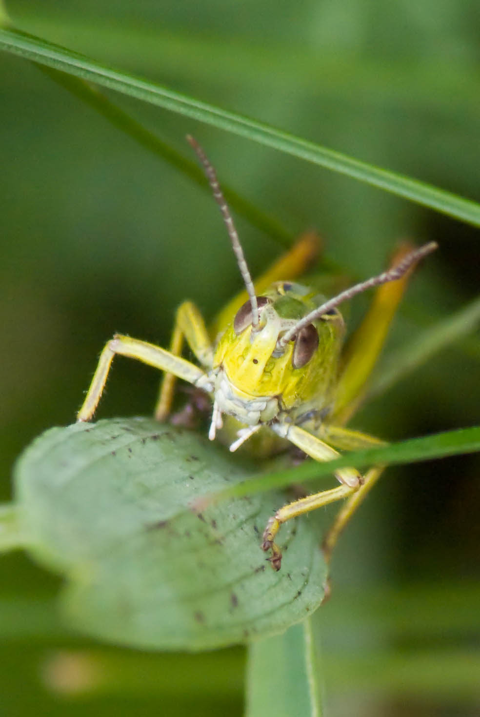 A grasshopper face to face, on a leaf